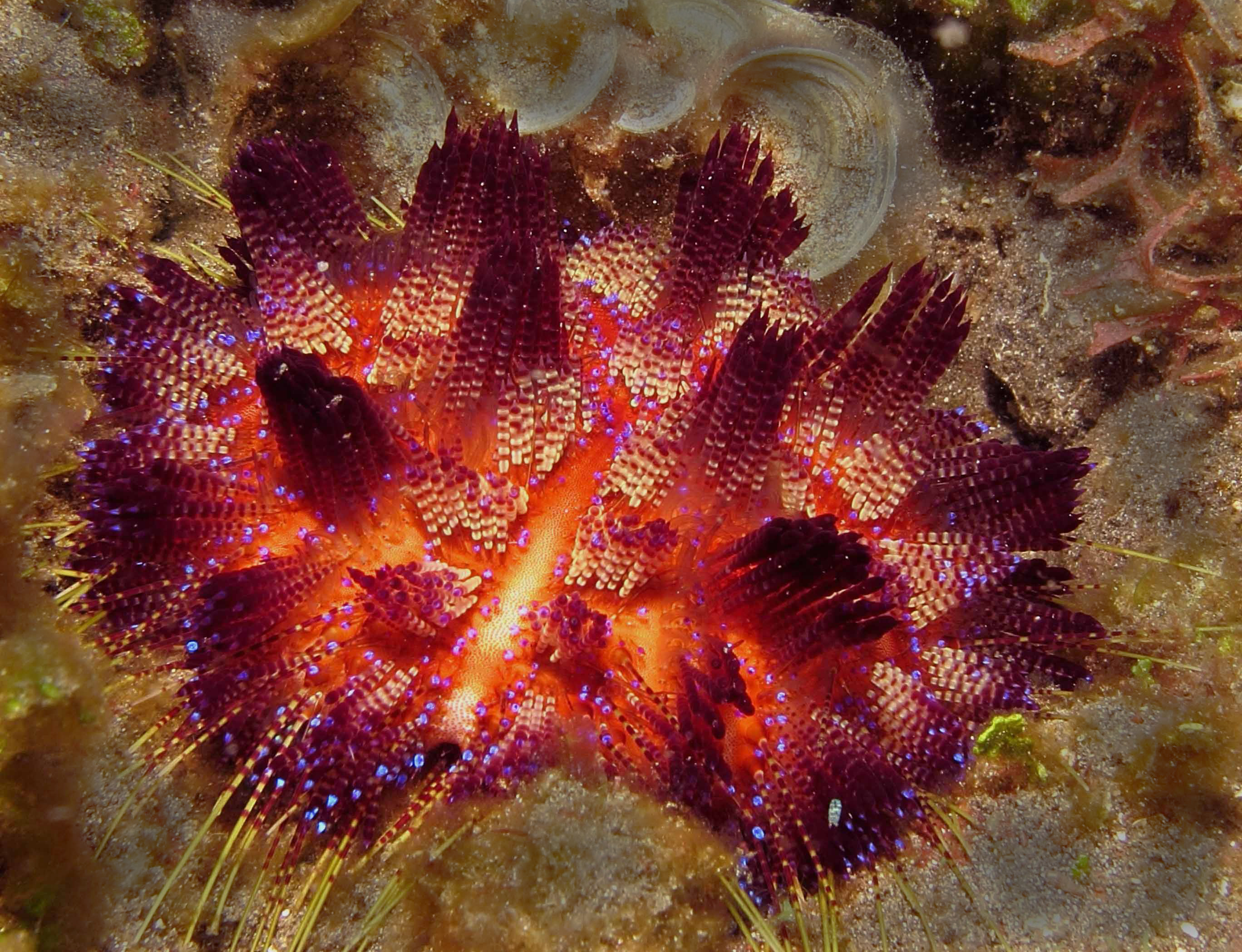 A fire urchin, Asthenosoma varium, observed near Alor Island, Indonesia.